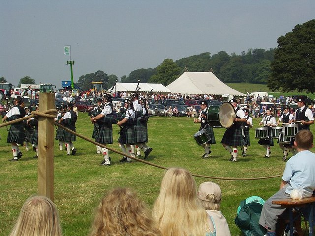 Pipe Band, Duns Show, in the grounds of Duns Castle The annual show is held in the grounds of Duns Castle